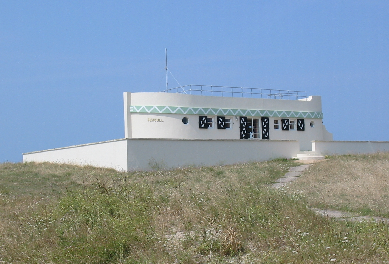 Barge Aground, Art Deco coastal cottage in St. Ouen's Bay, Jersey